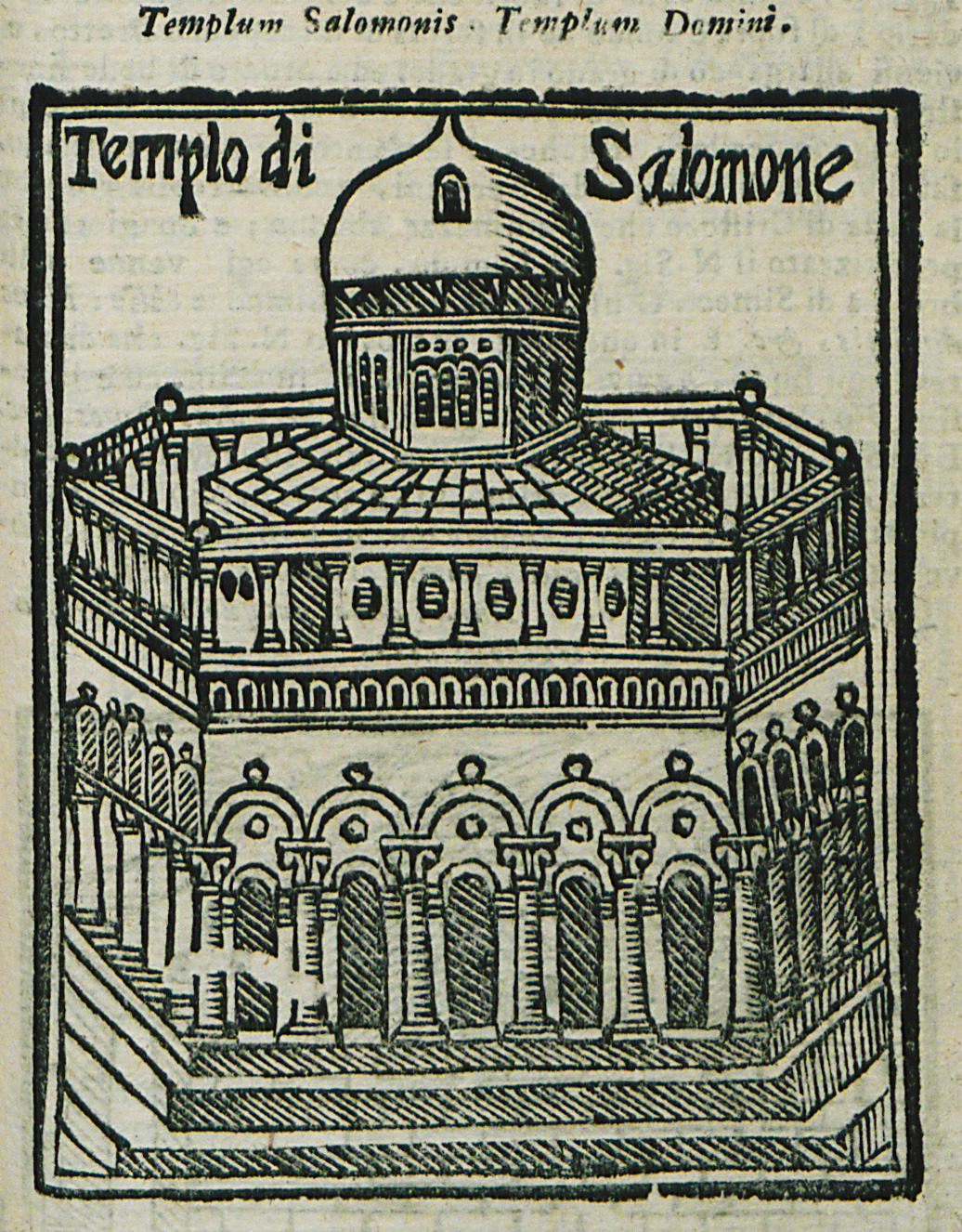 Noe Bianco, Viaggio da Venetia al Santo Sepolcro, et al monte Sina. Col dissegno delle Città, Castelli, Ville, Chiese, Monasterij, Isole, Porti, & Fiumi Lucca, Salvatore e Giandomenico Marescandoli, 1600